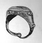 A 1890 photo of the medieval Georgian signet ring from the Gelati cathedral traditionally attributed to King David IV the Builder.